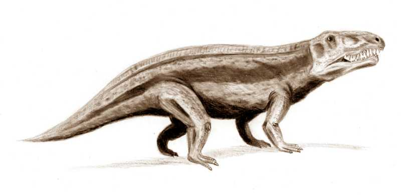 Erythrosuchus, pencil drawing Author:User:ArthurWeasley